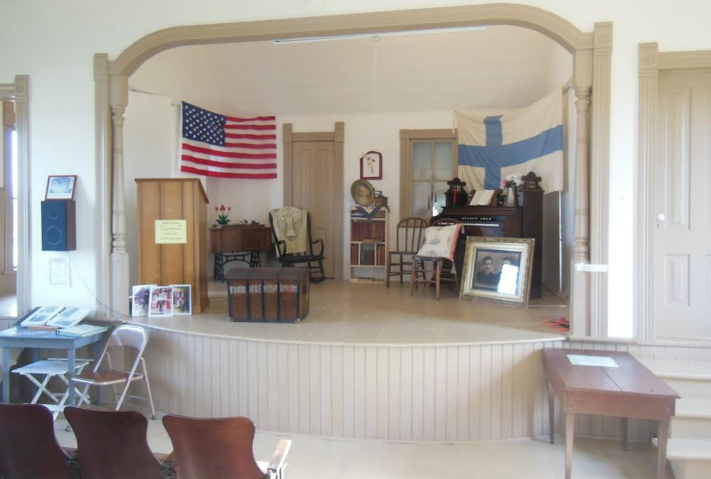 Photo taken 5 November 2015 of the main area facing the stage inside the Cokato Temperance Hall, Cokato Township, Wright County, Minnesota, United States